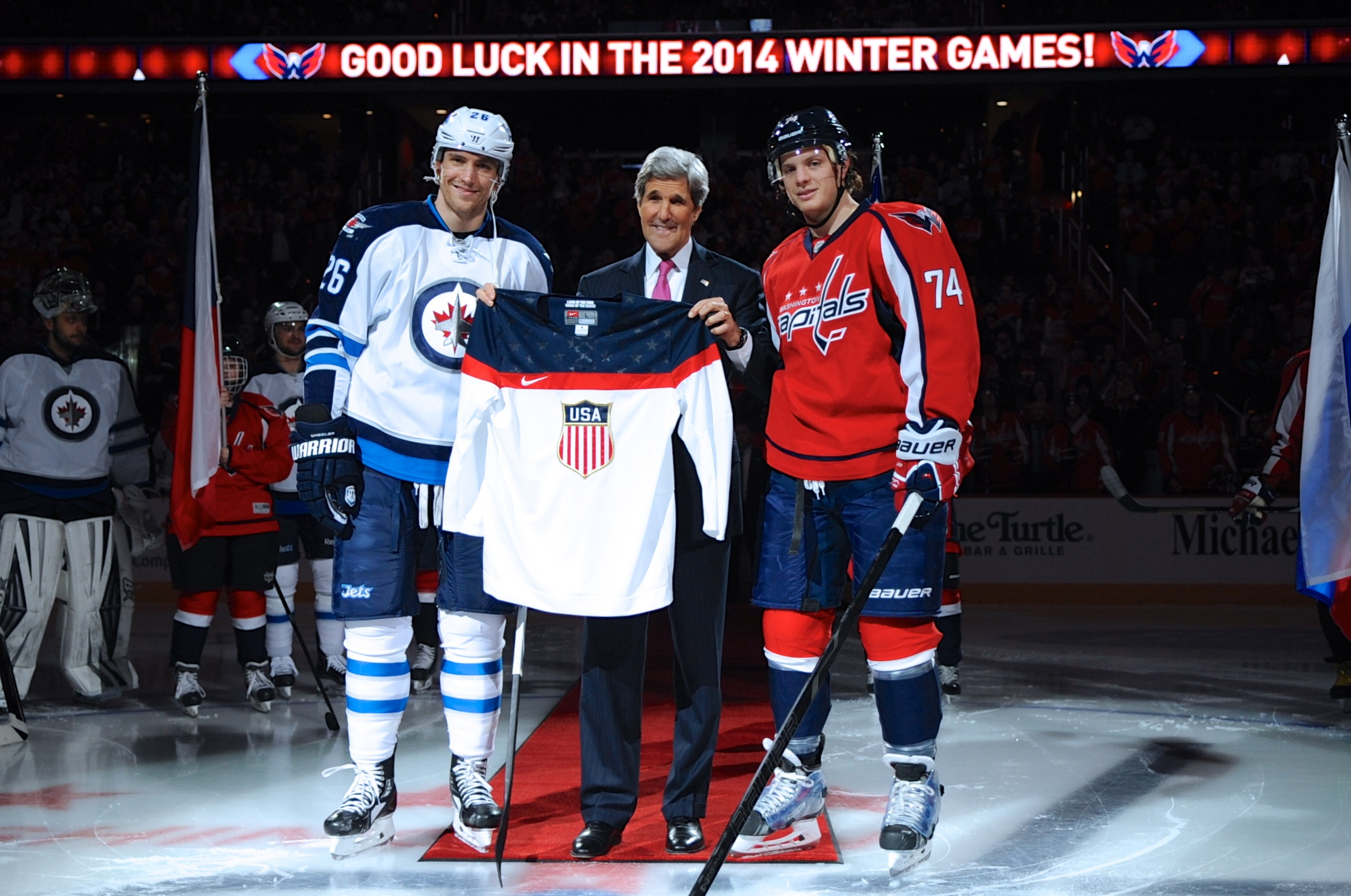 U.S. Secretary of State John Kerry holds a Team USA Jersey with Winnipeg Jets player Blake Wheeler and Washington Capitals player John Carlson -- both members of Team USA -- after honoring Olympics-bound hockey players before the Washington Capitals-Winnipeg Jets game at the Verizon Center in Washington, D.C., on February 6, 2014. [State Department photo/ Public Domain